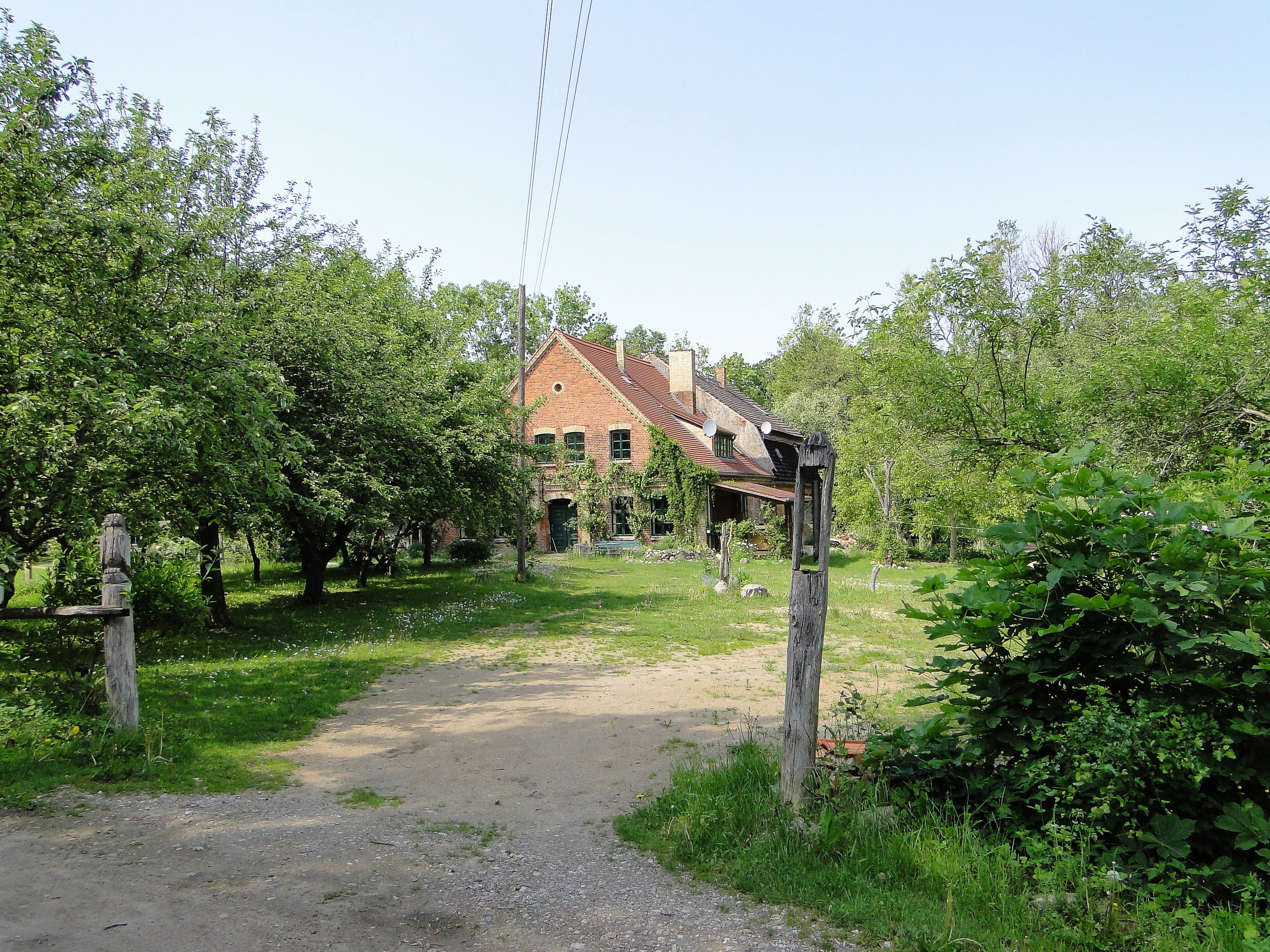 Former water mill in Rothen Mühle, district Parchim, Mecklenburg-Vorpommern, Germany